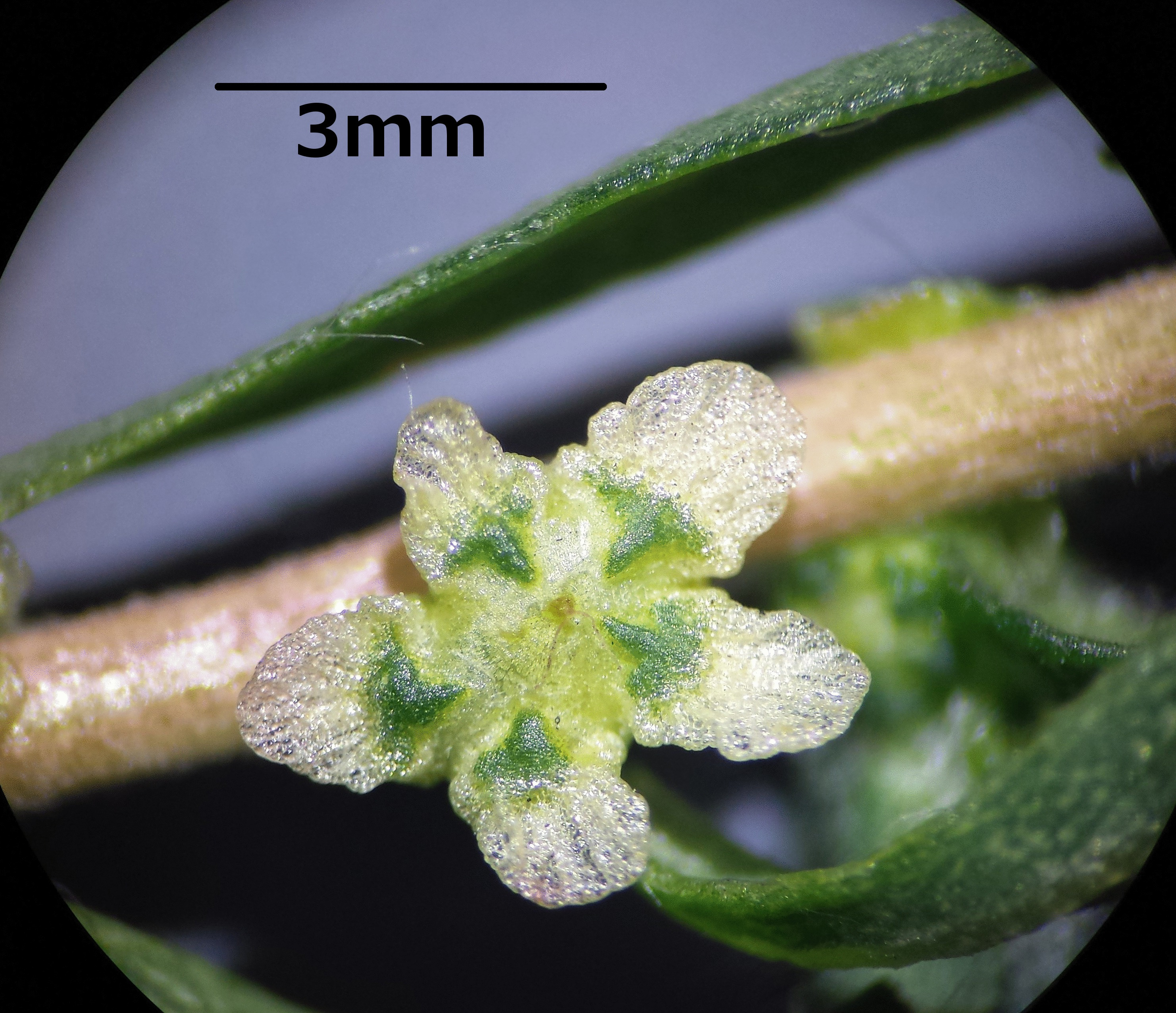 Stipe with leaves and fruits Taxon: Bassia scoparia cf. subsp. densiflora (sensu Fischer et al. EfÖLS 2008) Location: corner An der Schanze / Dückegasse, Donaufeld, Vienna-Floridsdorf - ca. 160 m a.s.l. Habitat: ruderal wayside inbetween fields